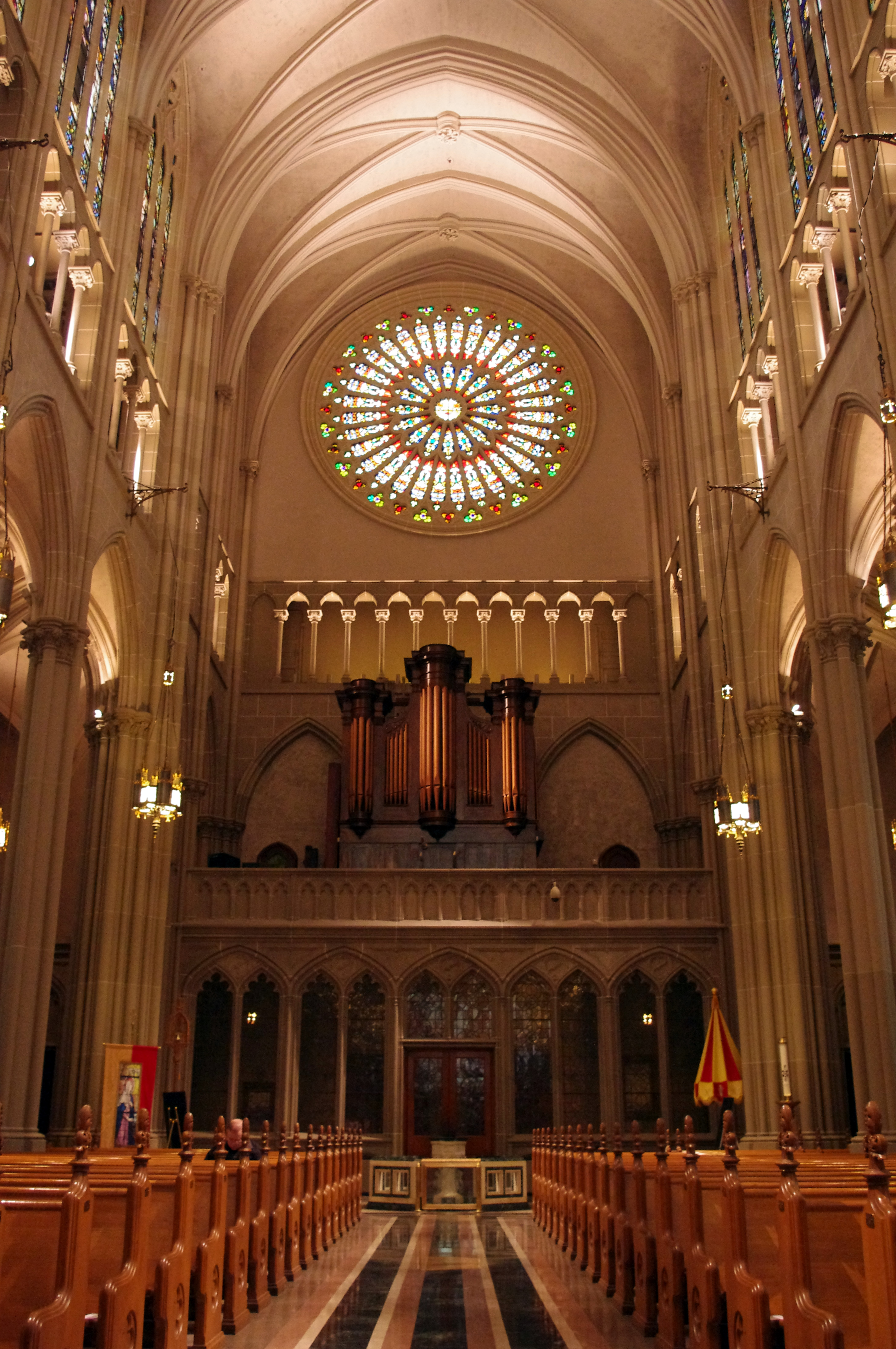 St. Mary's Cathedral Basilica of the Assumption (Covington, Kentucky), interior, rear of the nave, facing west